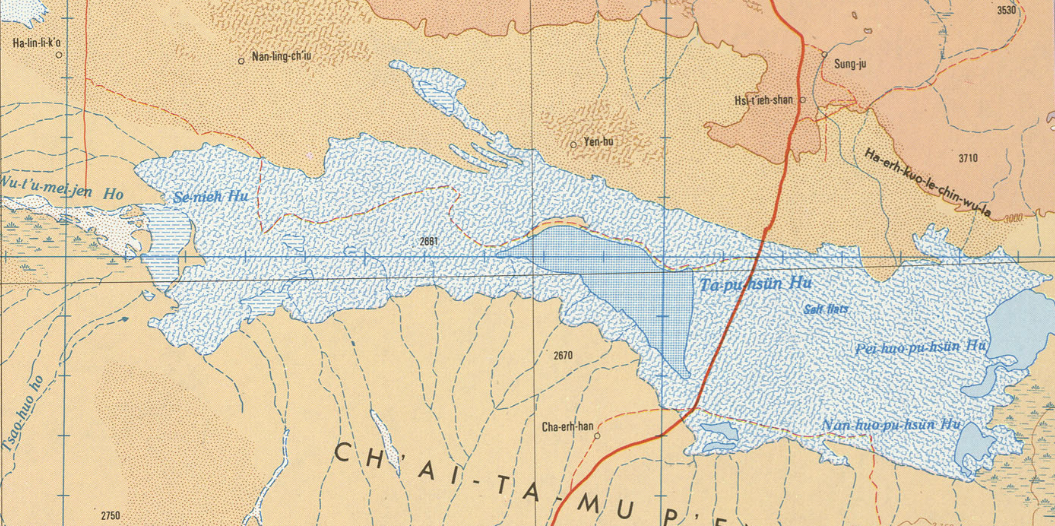 A map of the Qarhan Playa in the Qaidam Basin in Qinghai, China. Names given in Chinese using Wade–Giles romanization. Elevation given in meters above sea level.Shown but unnamed: Big & Little Biele Lakes; Donglin Lake; Tuanjie Lake.Not shown: West Dabusun Lake, between Dabusun & the Biele Lakes; Xiezhuo Lake, between Dabusun & North Hulsan Lake.